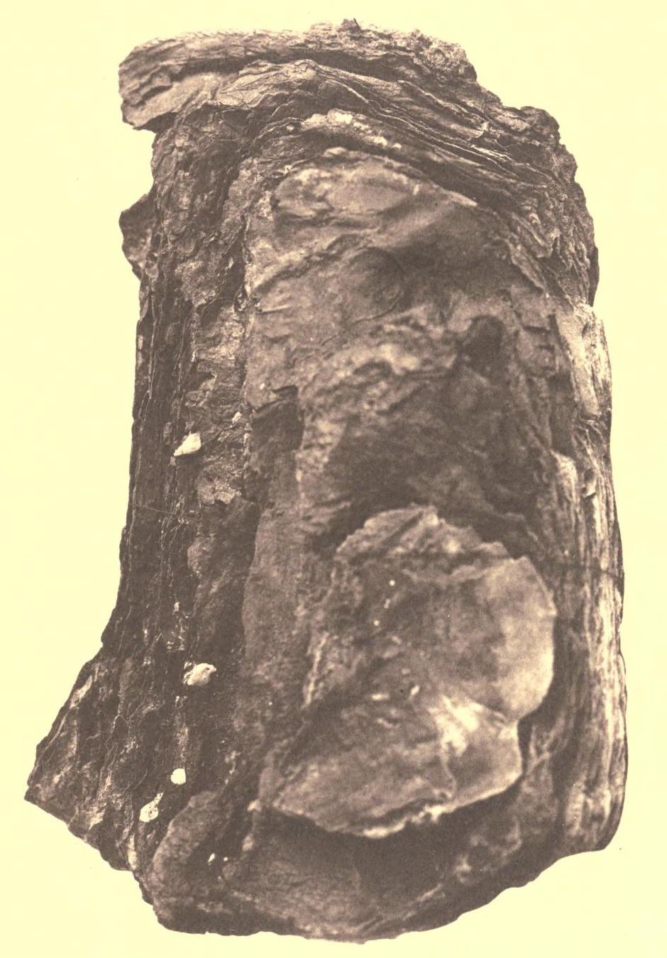 Codex Freerianus, facsimile of H.A. Sanders (1918)